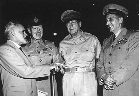 AWM Caption: HANEDA AIRFIELD, TOKYO, JAPAN, 1950-08-14. (L TO R) : LIEUTENANT COLONEL W.R. HODGSON LIEUTENANT GENERAL SIR HORACE C.H. ROBERTSON GENERAL DOUGLAS MACARTHUR AIR MARSHAL GEORGE JONES AWAITING THE ARRIVAL OF THE AUSTRALIAN PRIME MINISTER R.G. MENZIES.